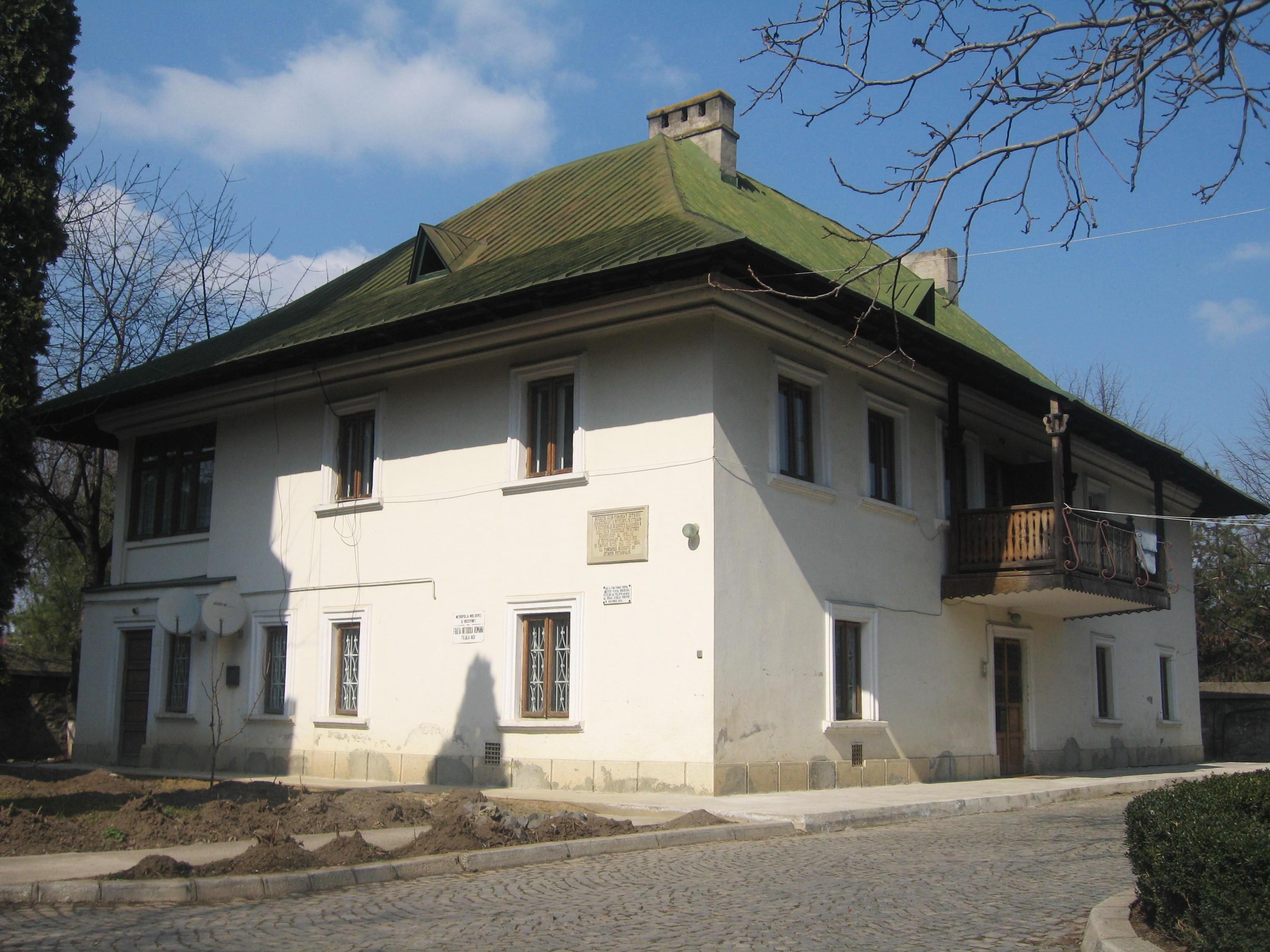 Bărboi Church, iași, Romania